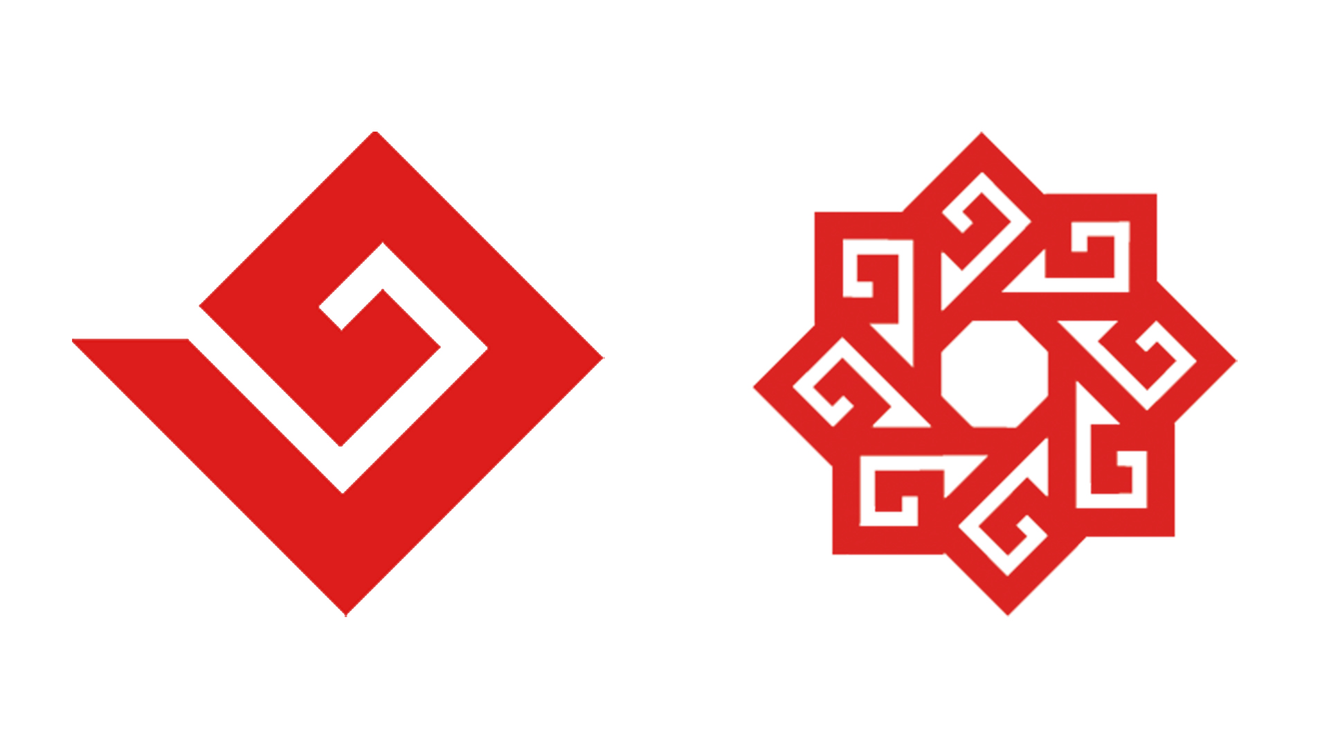 Karesi the Anatolian Beylik and Karesi Municipality symbols